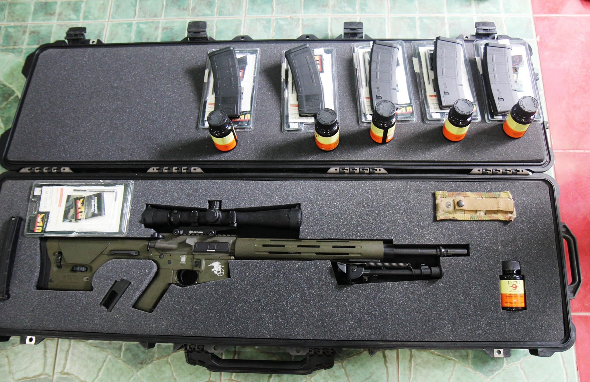 The Philippine Marines Corps (PMC) officials and personnel hauled their upgraded 10 units 5.56mm MSSR Gen-4 with thousands of rounds of its 69 grain match ammo, and one (1) unit of Machine Gun 7.62mm E4 this morning of May 26, 2017 at the GA SARUU. All items will be for immediate deployment to Marawi City for the utilization of the government troops who are currently fighting the terrorist group.